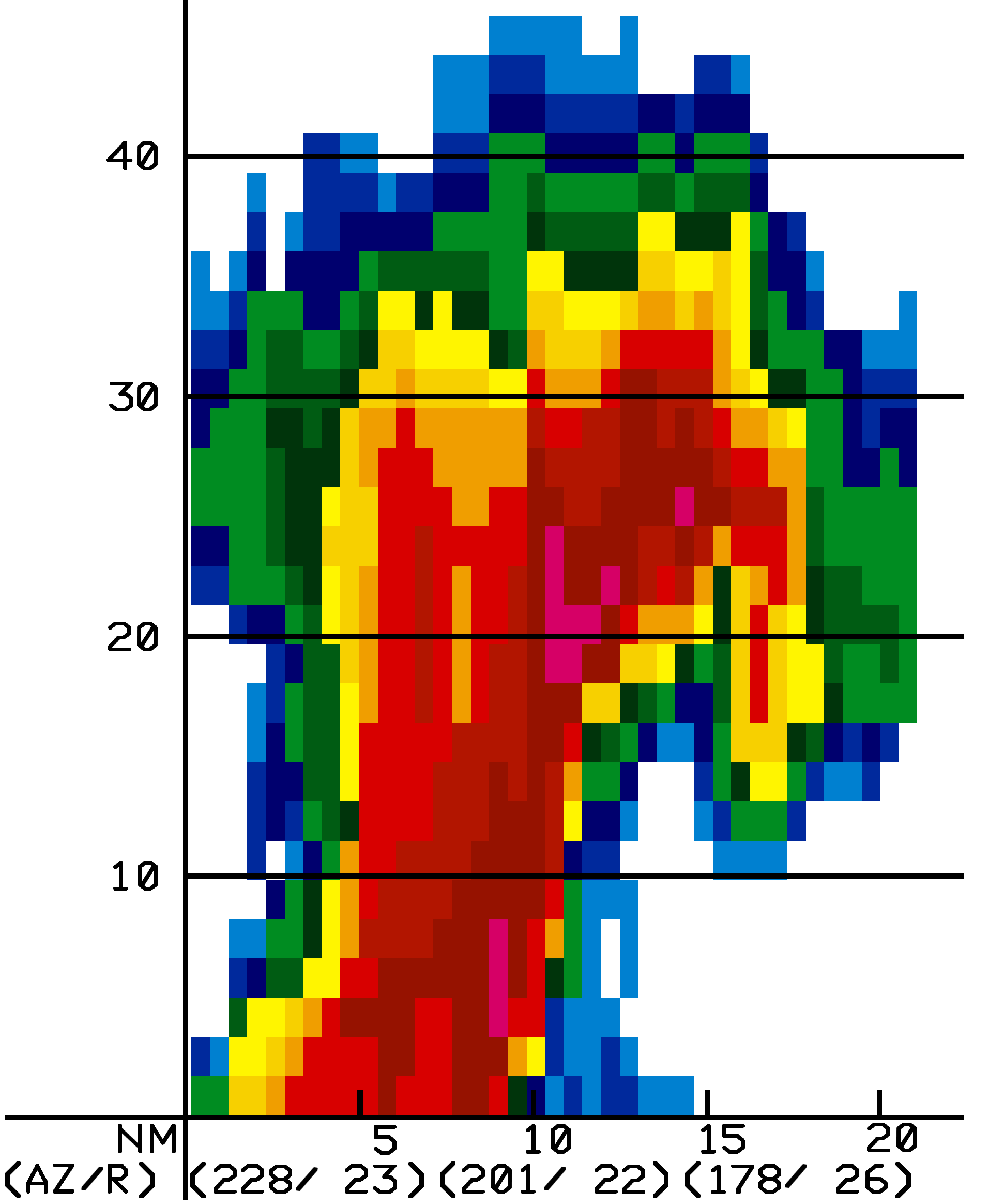 Bounded weak echo region visible on a supercell thunderstorm cross-section.